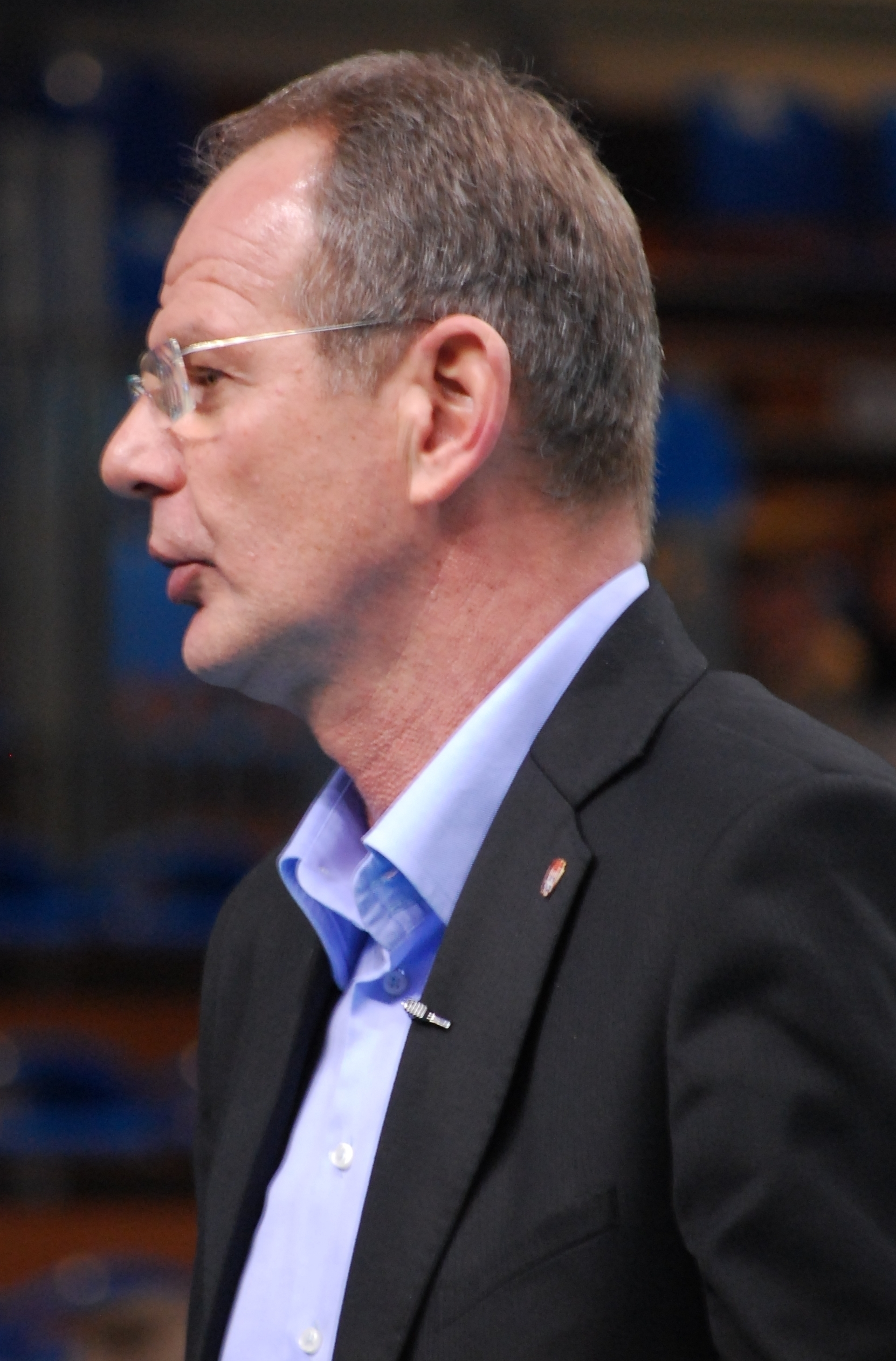 Ljubomir Travica, the coach of Asseco Resovia Rzeszow